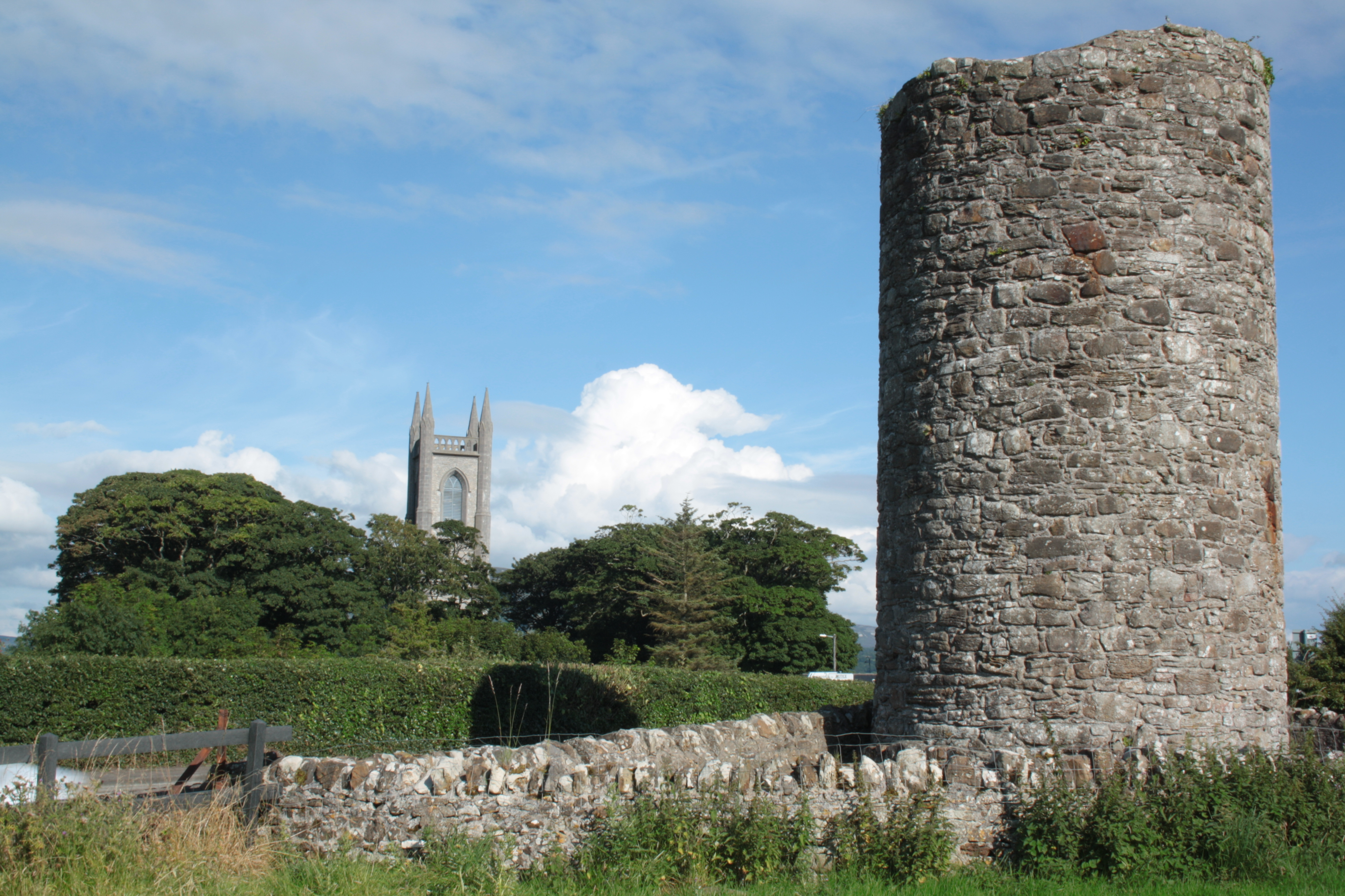 Drumcliffe Round Tower & church